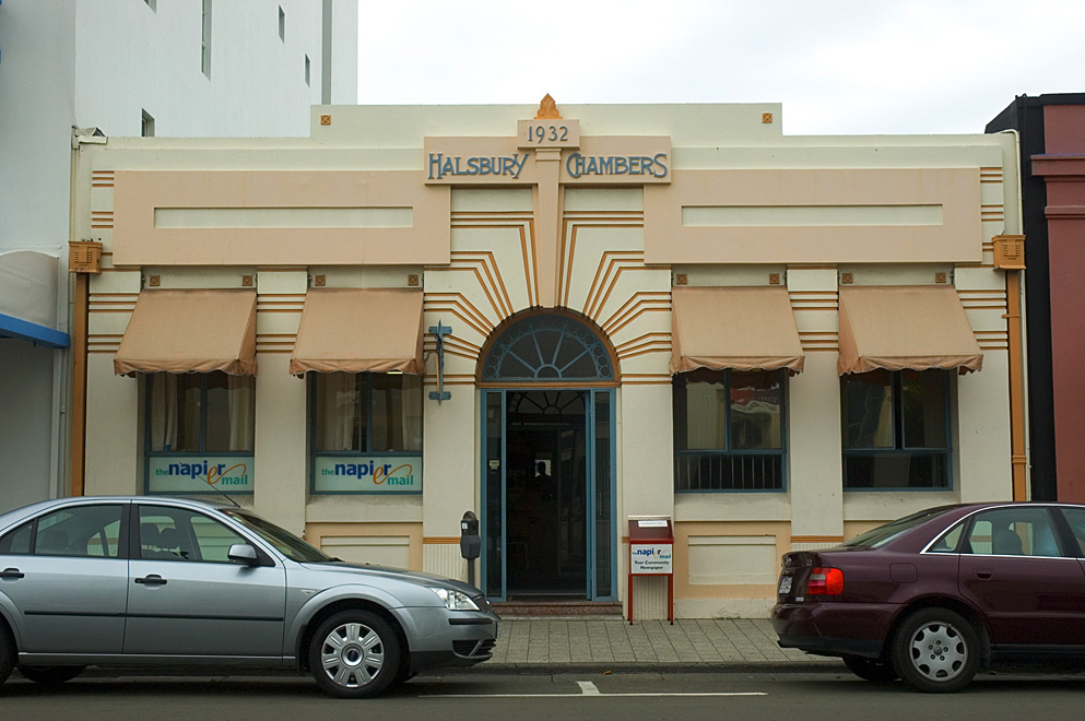 Halsbury Chambers, Louis Hay, Napier, 1932 (26 January 2005.) Photograph by James Shook, who retains copyright and releases the image under the license shown below.